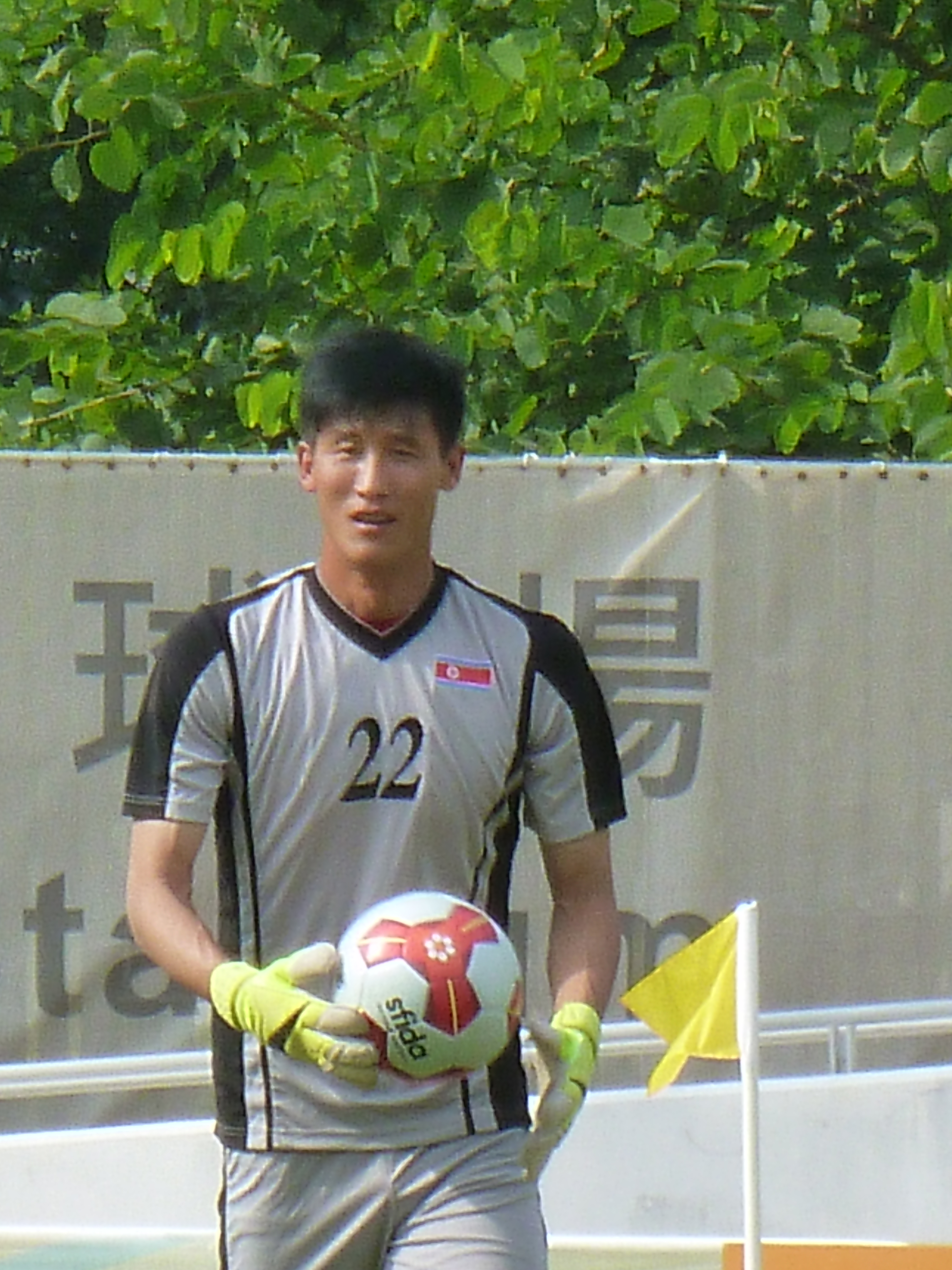 Ri Kwang-il (6 Nov 2016, EAFF E-1 Football Championship 2017 Round 2, North Korea vs Taiwan, Mongkok Stadium) 中文（香港）: 李光一 (6 Nov 2016, EAFF東亞足球錦標賽2017第二圈, 北韓 vs 台灣, 旺角大球場)